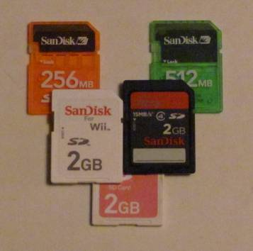 A group of five SanDisk SD cards in various colors. Photo taken by me.